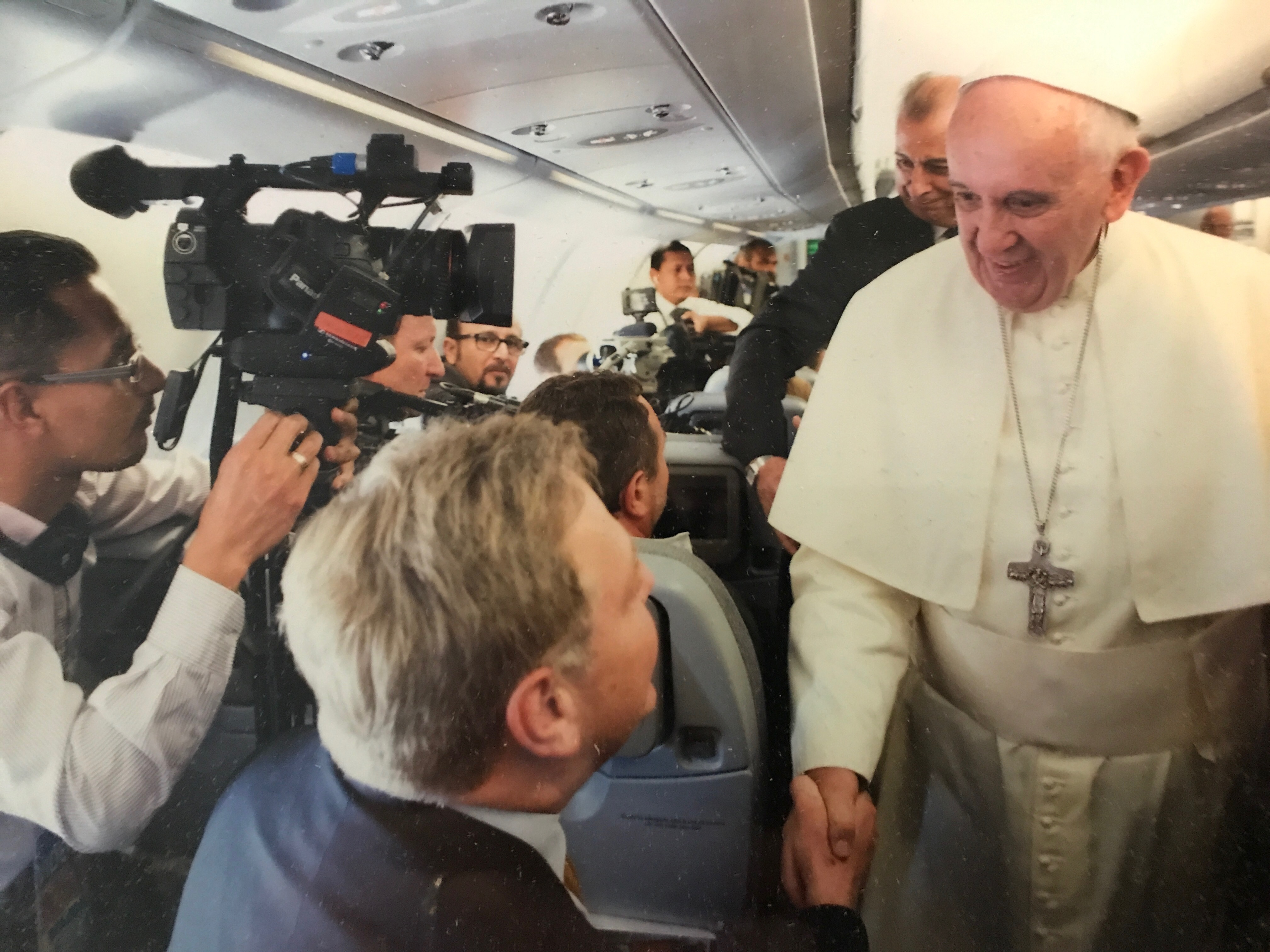 David Wright meets Pope Francis en route to South America, July 2015